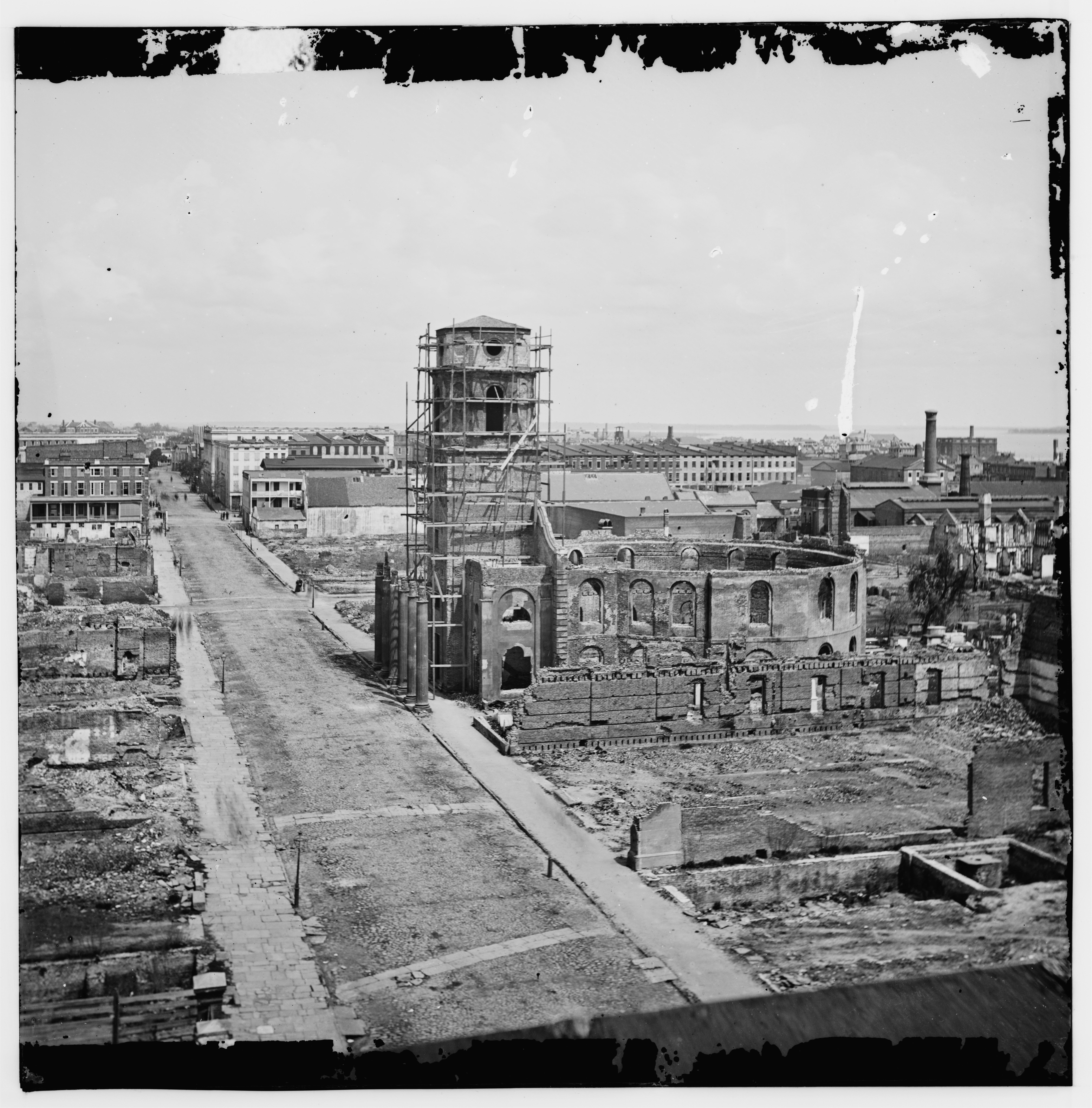 Charleston, S.C. View from roof of the Mills House, looking up Meeting Street; ruins of the Circular Church in center